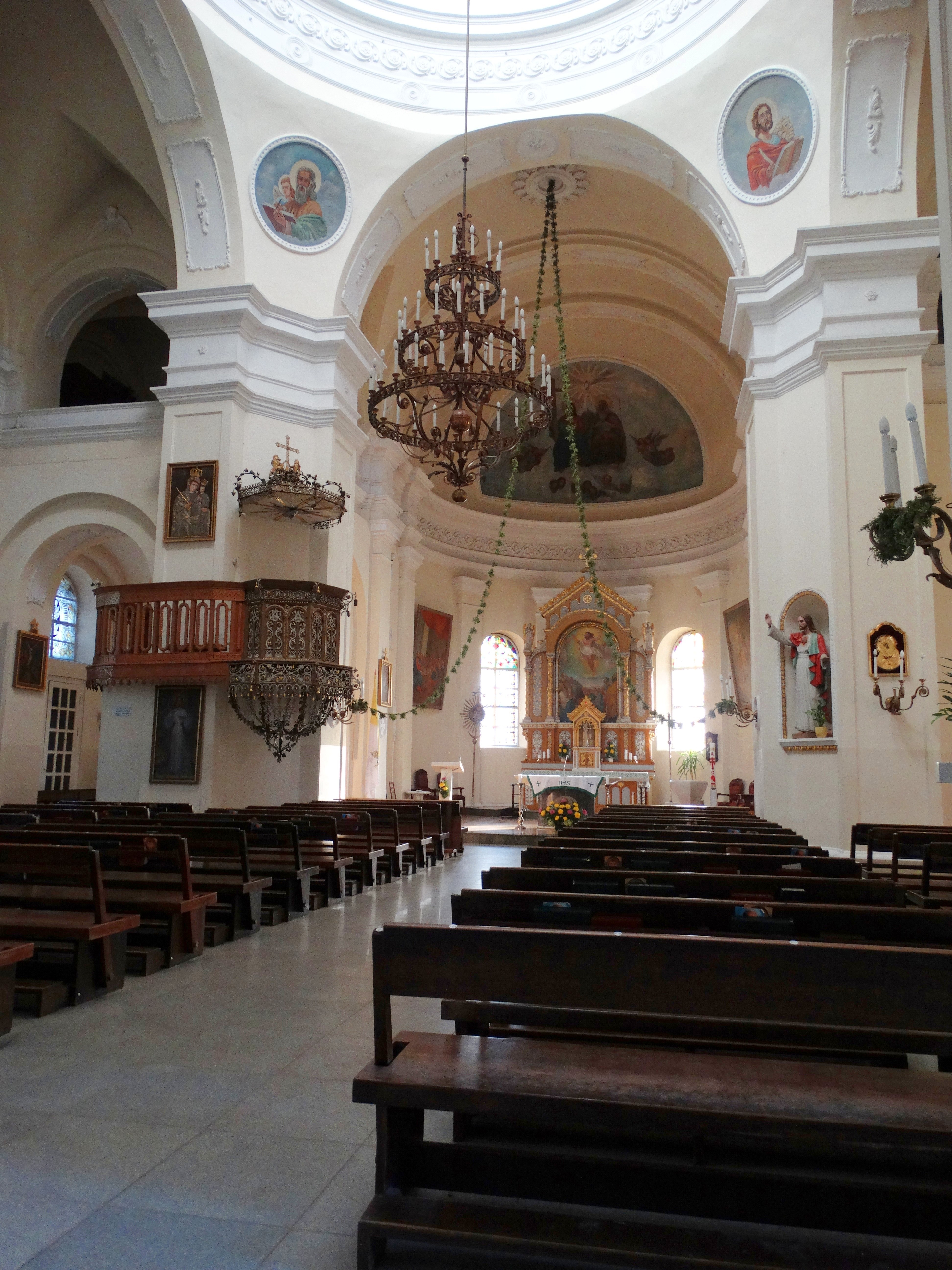 Church of the Ascension of Christ, Utena, Lithuania